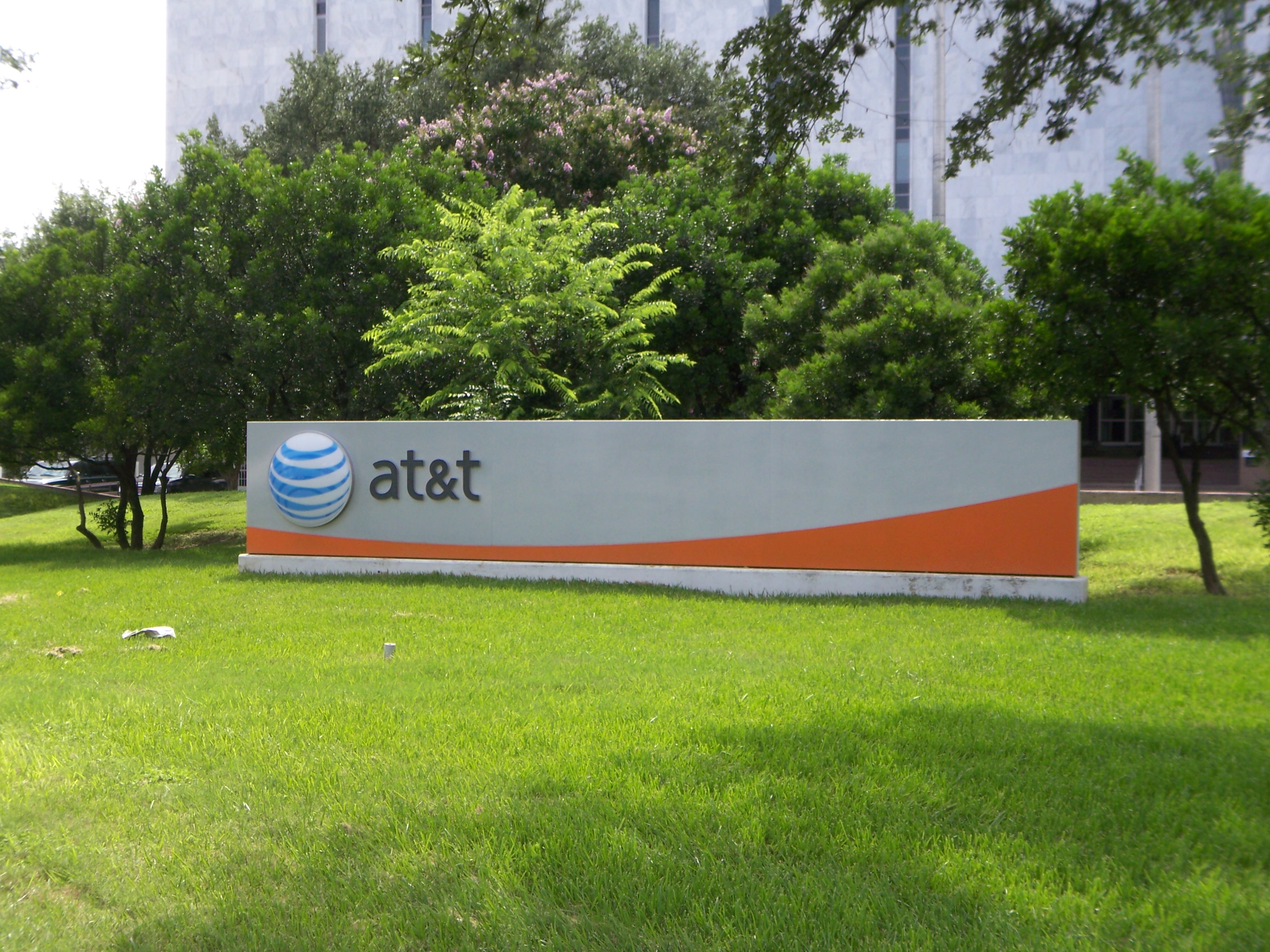 New AT&T sign in San Antonio, TX. The sign has incorporated the orange from the former Cingular.